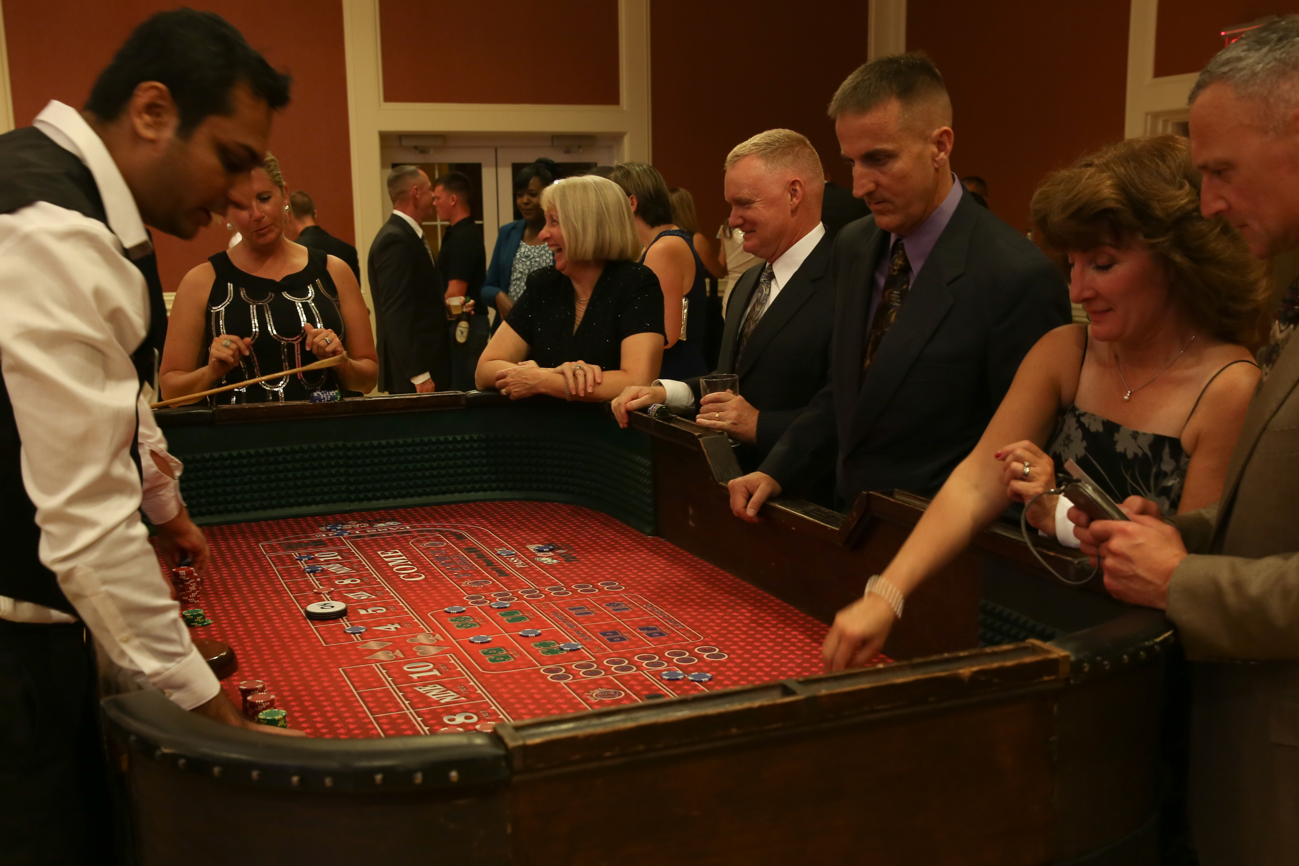 Marines and sailors along with their spouses take part in a game of craps during the 5th annual Casino Royale event aboard Marine Corps Base Camp Lejeune, Sept. 28, 2013. The guests socialized at the 2nd Marine Division hosted event, which featured a dinner and Las Vegas style gaming tables for entertainment.